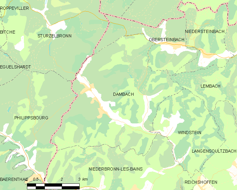 Map of French municipality